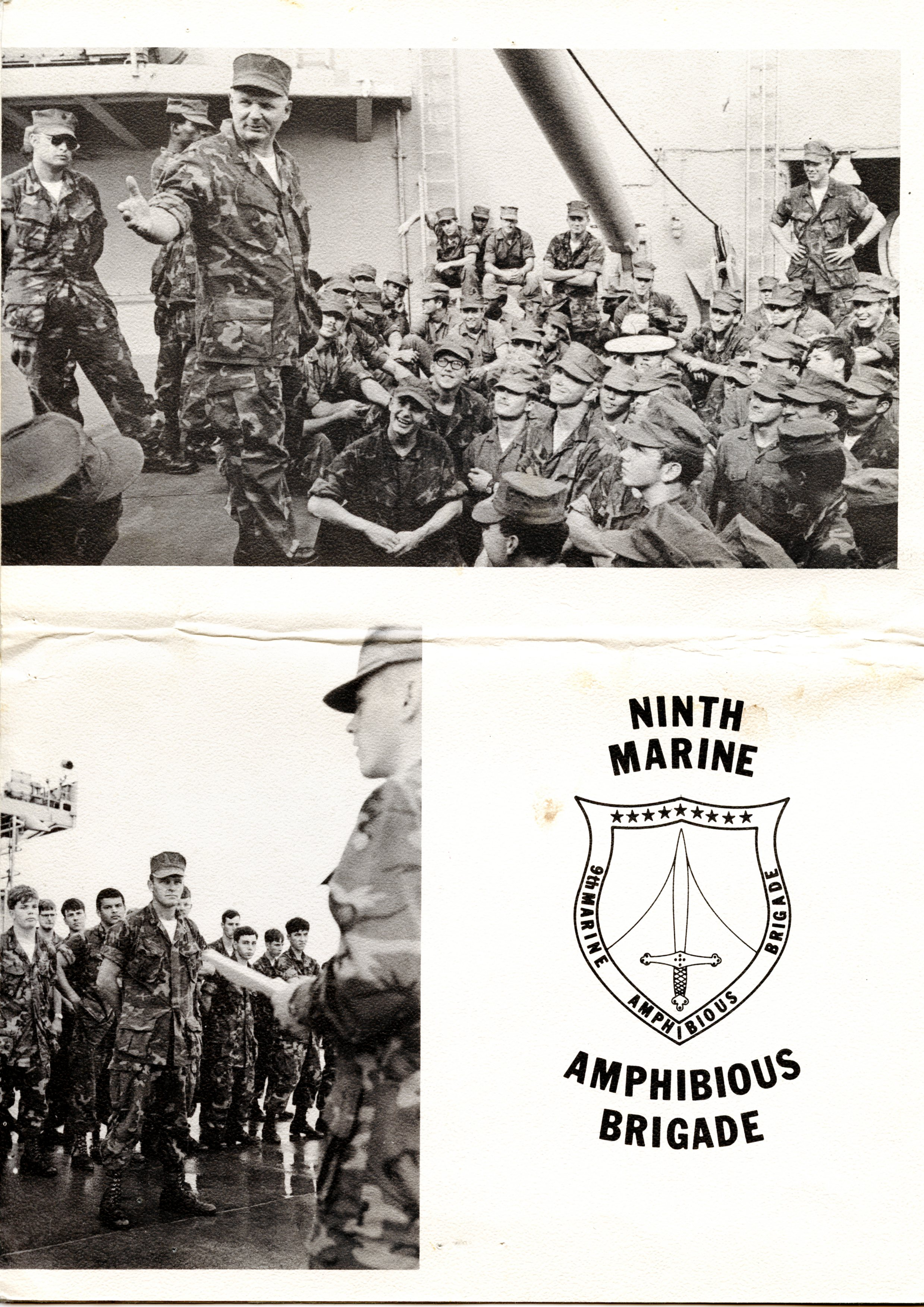 wyswyg